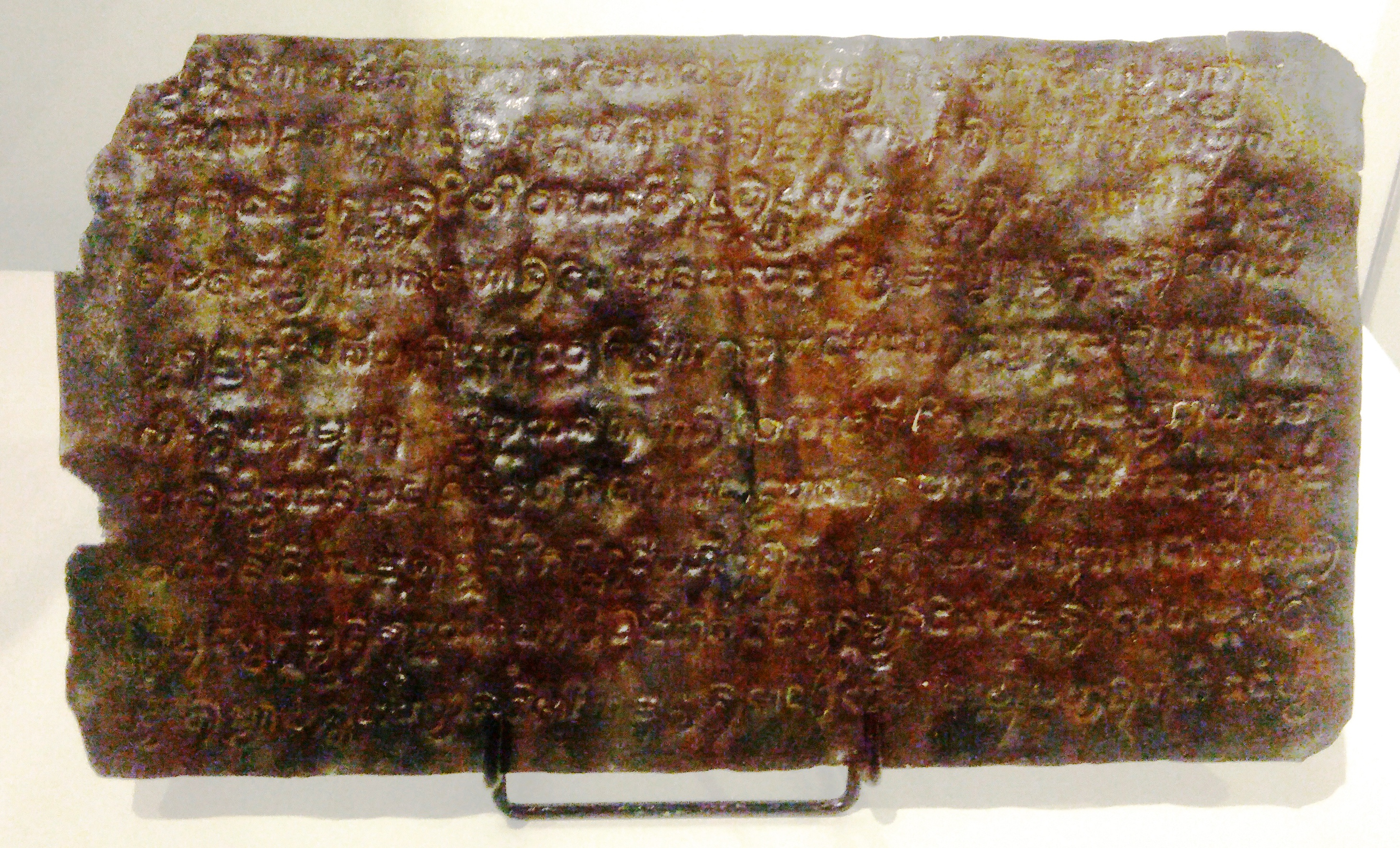 The Laguna Copperplate Inscription Filipino: Inskripsyon sa Binatbat na Tanso ng Laguna